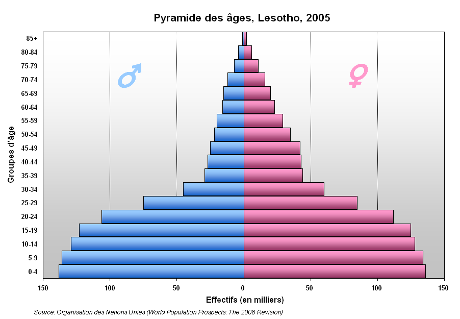 Lesotho Population pyramid, 2005